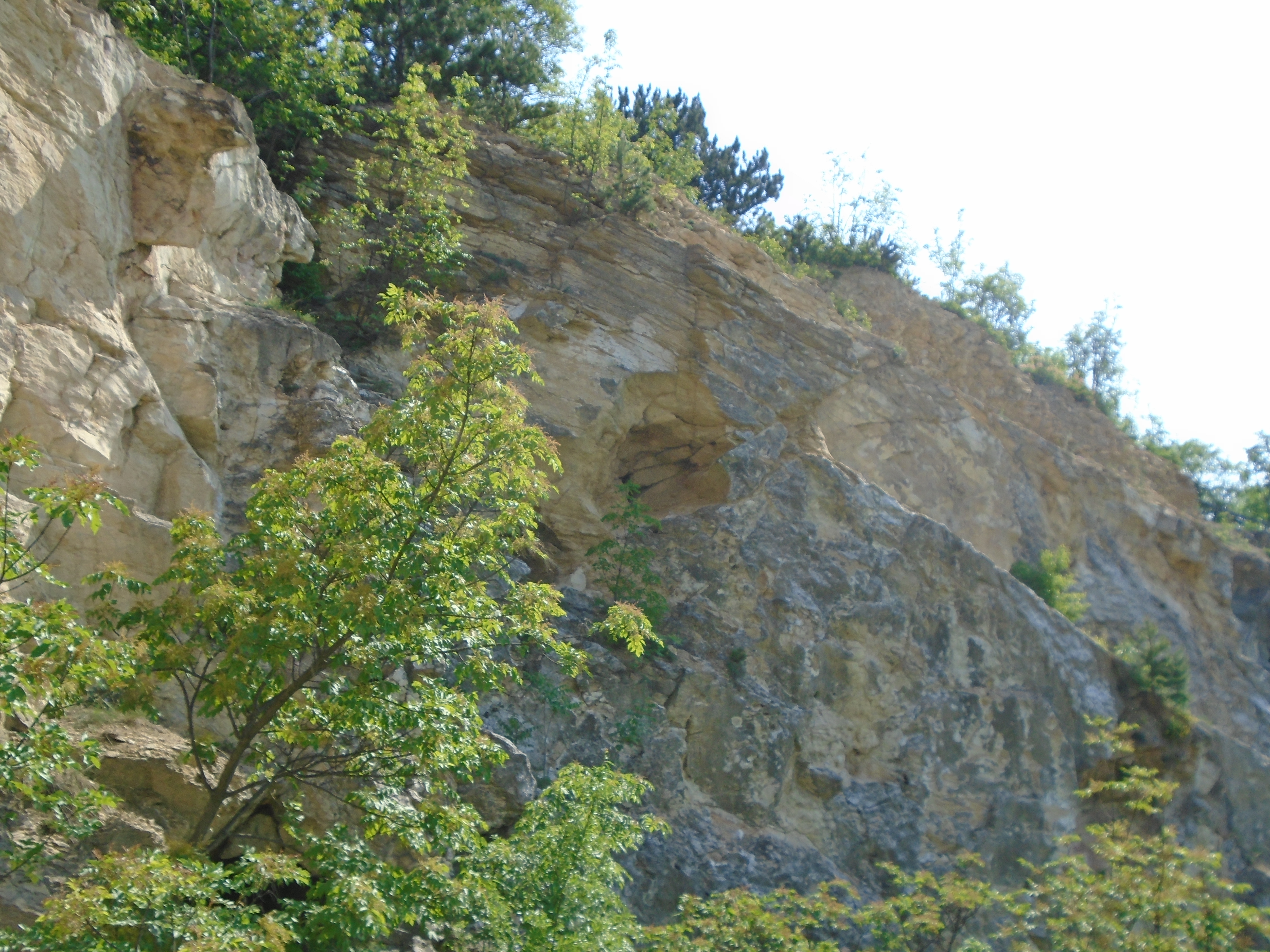 Entrance of Keleti quarry No 13 Cave.